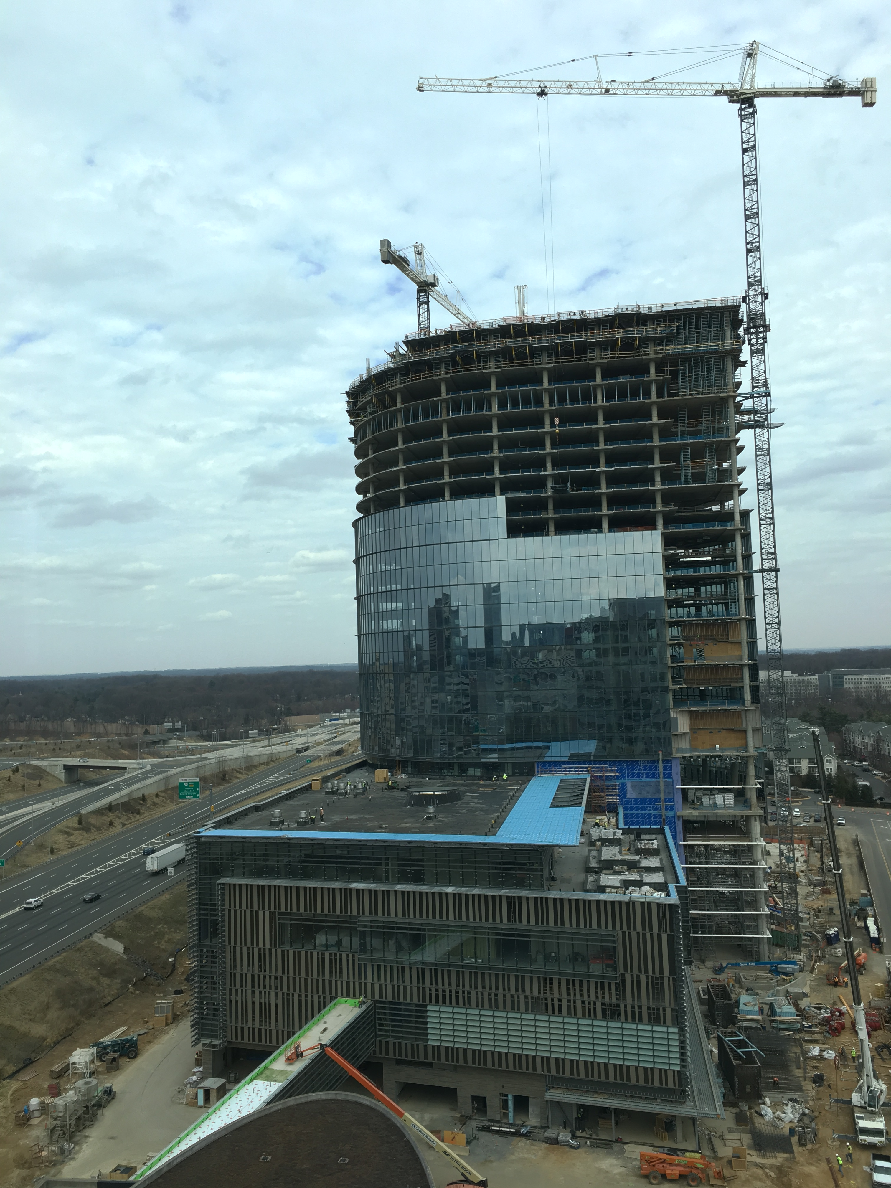 Capital One HQ McLean 2 building under construction